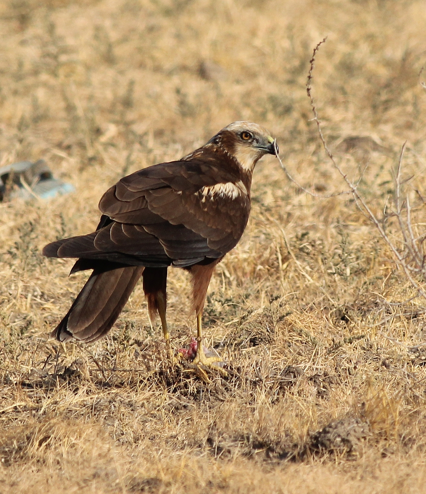 Marsh harrier with a prey at Little Rann of Kutch , Gujurat